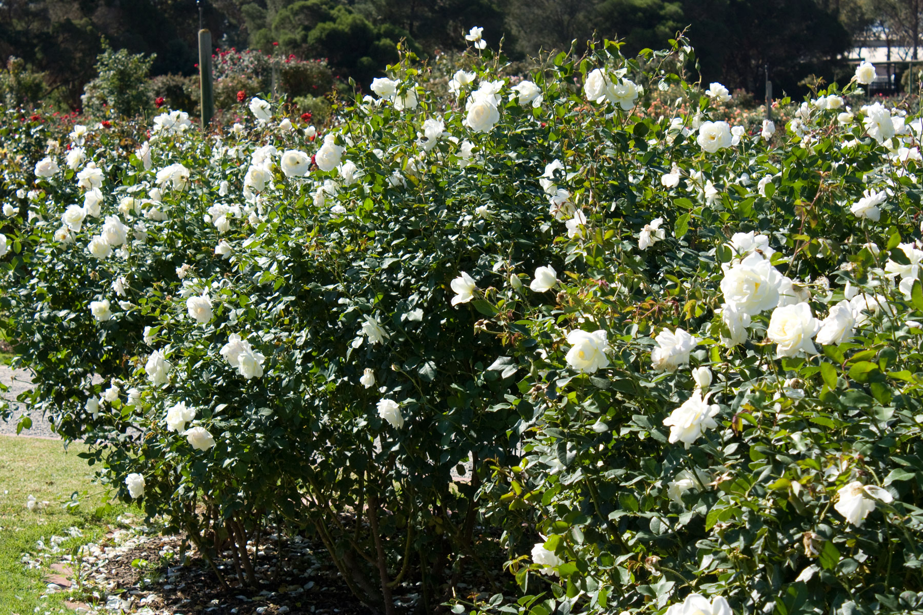 White Spray Bush